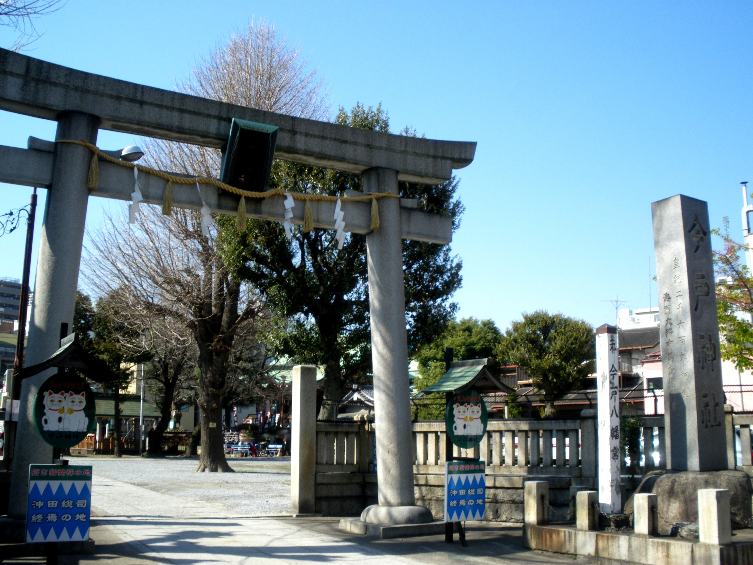 Imado Jinja (Imado,Taito,Tokyo)